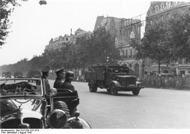 Title: Paris, Champs-Élysées, Wehrmachtsparade Extra information: Frankreich, Paris.- Parade der Wehrmacht auf dem Champs-Élysées, Fahrzeuge der SS-Leibstandarte "Adolf Hitler"; PK 696 Factual corrections and alternative descriptions are encouraged separately from the original description. Additionally errors can be reported at this page to inform the Bundesarchiv. Original historic description